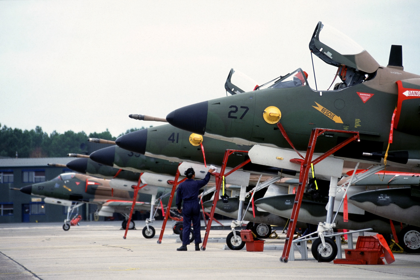 Five single-seat A-4SUs on the flight line of Base Aérienne Cazaux, France. 150 squadron of the Singapore Air Force has been stationed at Cazaux (southern France) since 1998. 18 A-4SU 'Super Skyhawks' (in fact modernized A-4Cs) were used for advanced pilot training. In November 2012 the remaining 11 A-4s were replaced by Aermacchi M-346s.